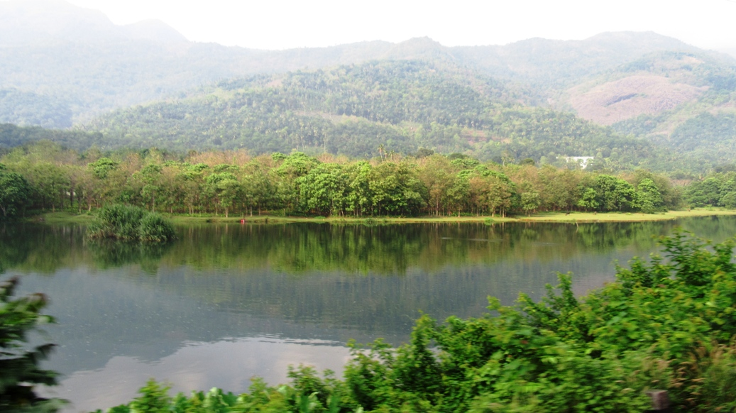 This is the view of kanjar during peak summer. It is a perennial river in Idukki, (Kerala,India)